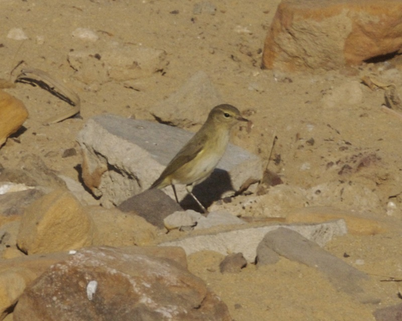 Common Chiffchaff Phylloscopus collybita Bahariya Oasis, Western Desert, Egypt December 28, 2007 Distribution: _Q0S3282